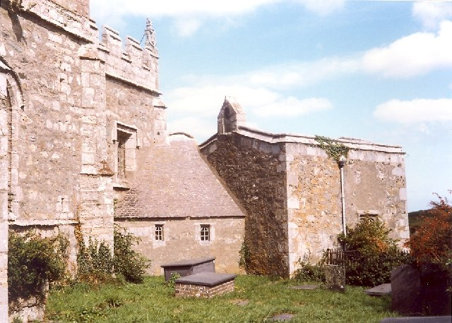 Llaneilian Church. This church is in the Perpendicular style of about 1500, on the foundations of a 12C church, but the chapel set at an angle to the church is on the site of the original foundation of the 5C or 6C.